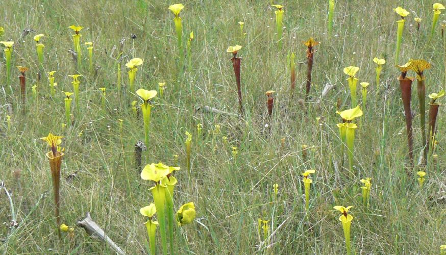 A "pitcherplant meadow" in the Florida panhandle, with mixed varieties of Sarracenia flava: v. rugelii (green with purple throat patch), v. ornata (red veins on tube and operculum), and v. rubricorpora (solid red tube, with red veined operculum).